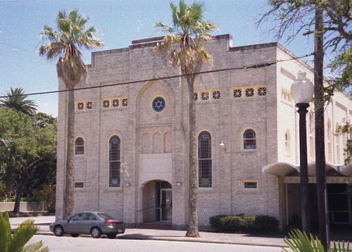 Photo by myself of Temple Beth Jacob, Galveston, Texas, USA.